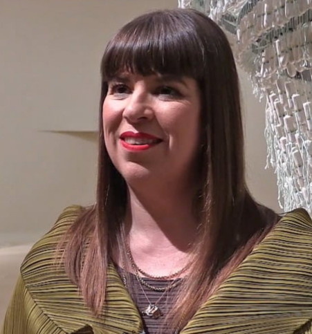 Artist Joana Vasconcelos at the Guggenheim Bilbao Museum